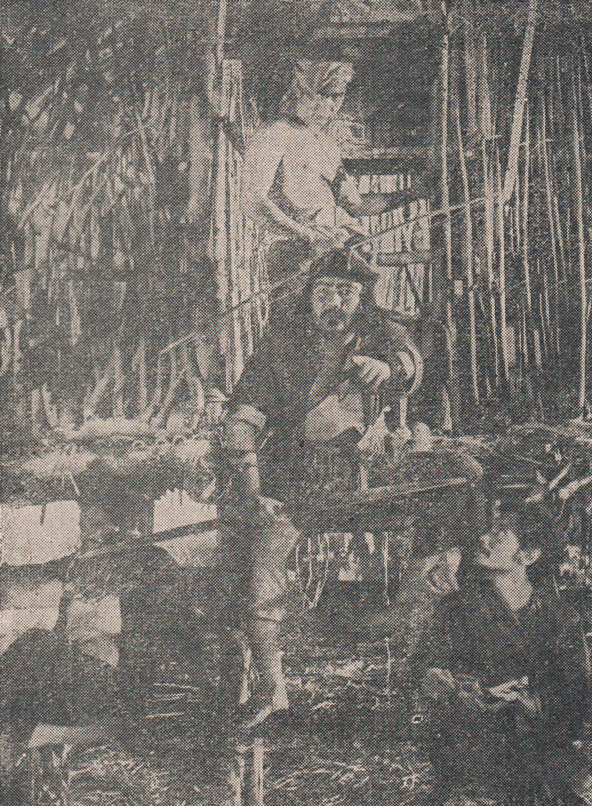 The bandits: Medasing (seated, center), Amat (standing with bow), Sohan, and Tusin (sitting on the ground). Anak Perawan di Sarang Penjamun